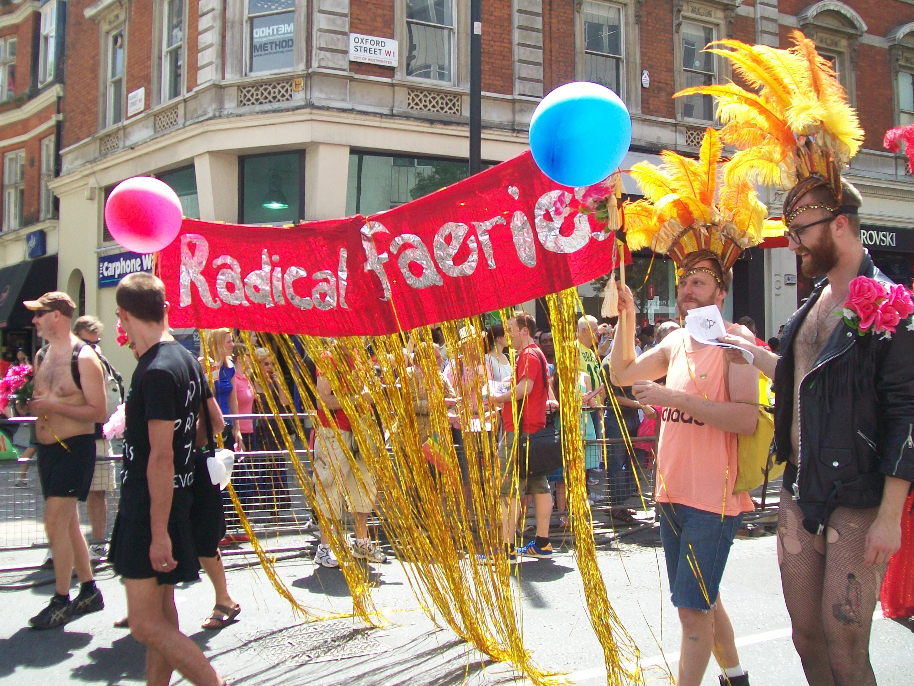 Pride London, 3 July 2010.